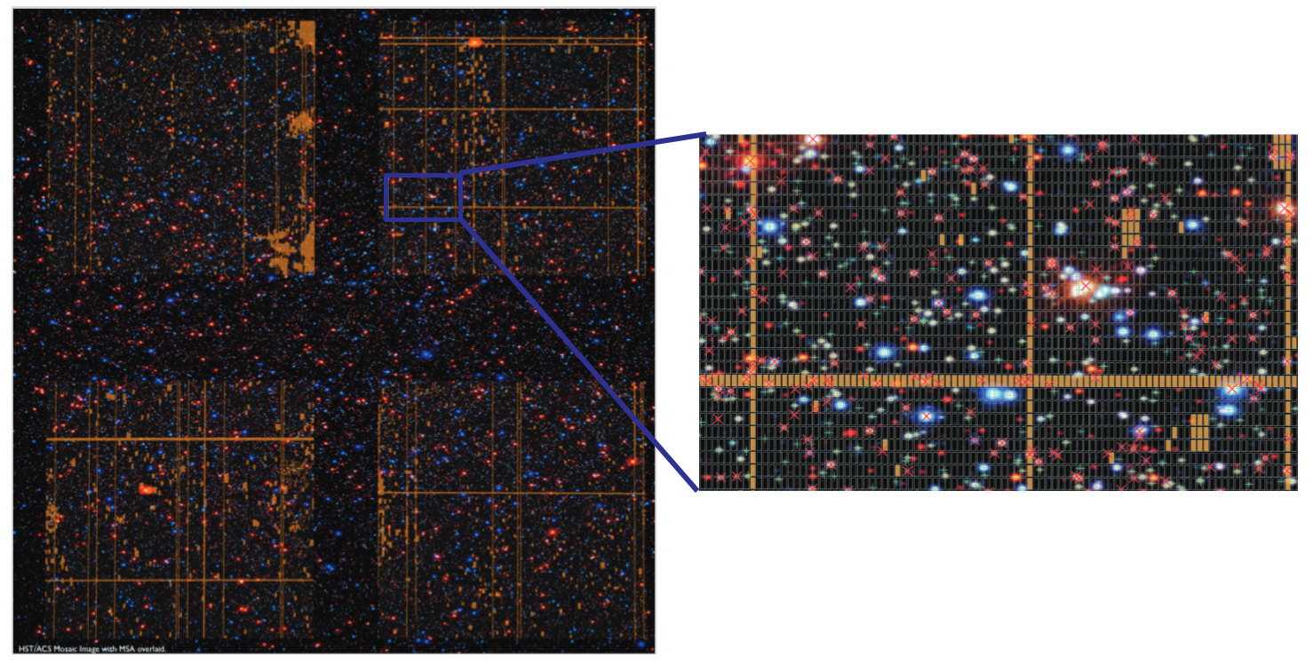 JWST NIRSpec instrument : Micro Shutter Assembly design (MSA). The current MSA is shown projected onto an ACS image at one pointing in Ω Cen. The image on right extracted from the area represented by the blue box on left, shows a sample of the many targets that are accessible to the MSA at a single pointing (sources marked with green plus symbols). Because of spectral overlap by targets in the same row of the MSA, many different MSA onfigurations would be required to obtain spectra of all accessible targets. Small ithers would further enable observation of the inaccessible targets shown in red